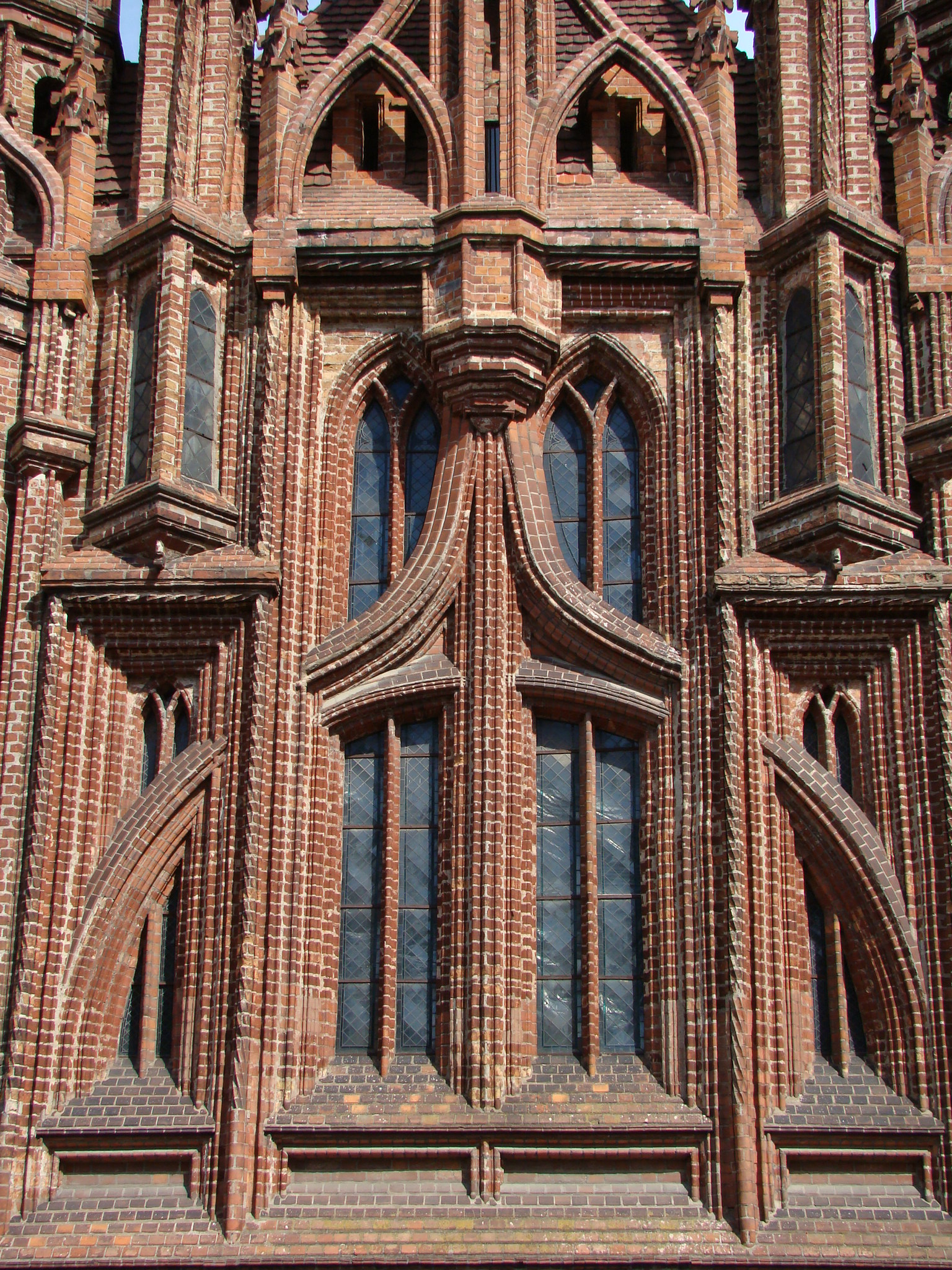 Part of facade of St. Anne Church in Vilnius.